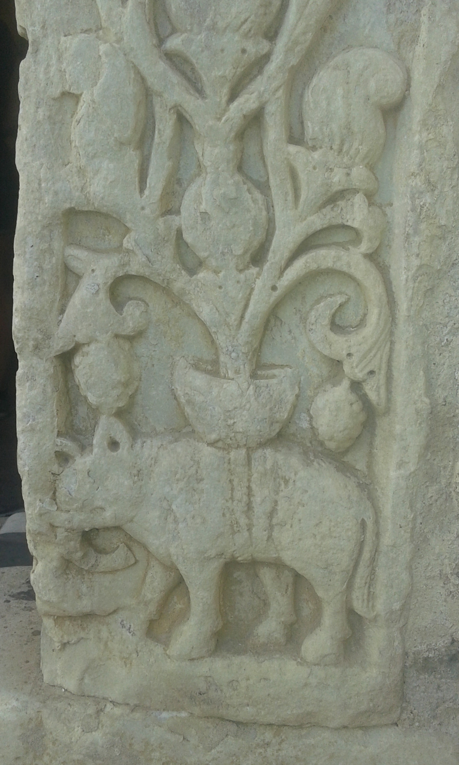 Left side of the entrance.